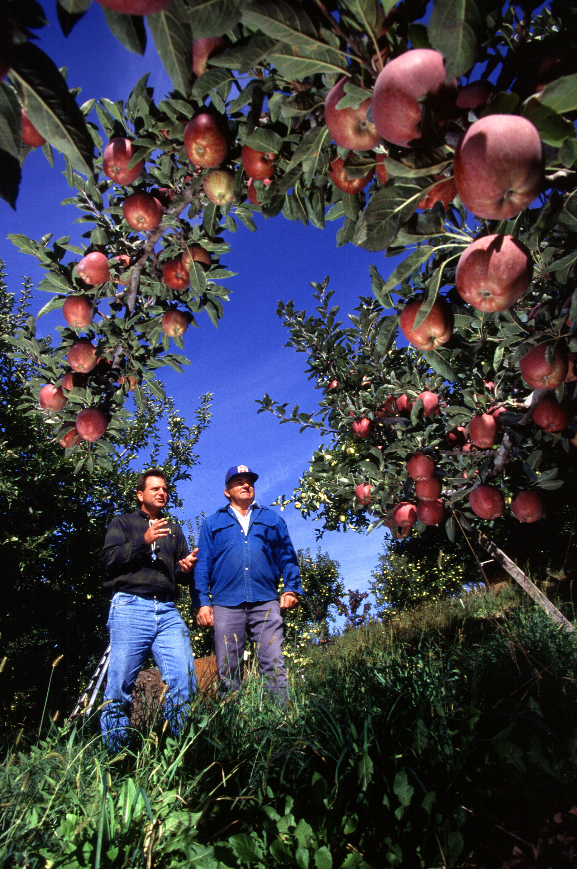 Agricultural Research Service entomologist Brad Higbee (left) explains the benefits of areawide insect pest suppression to Jerry Wattman, manager of this apple orchard near West Parker Heights, Washington.